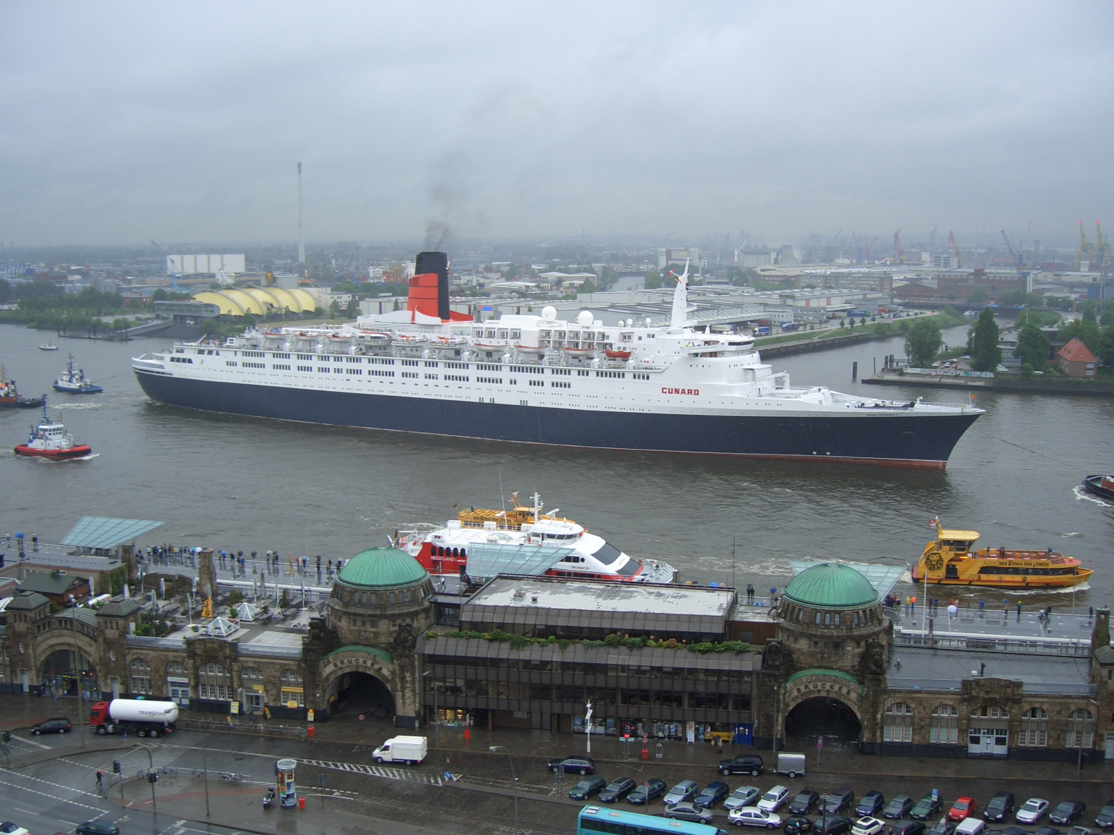 RMS Queen Elizabeth 2 (QE2)